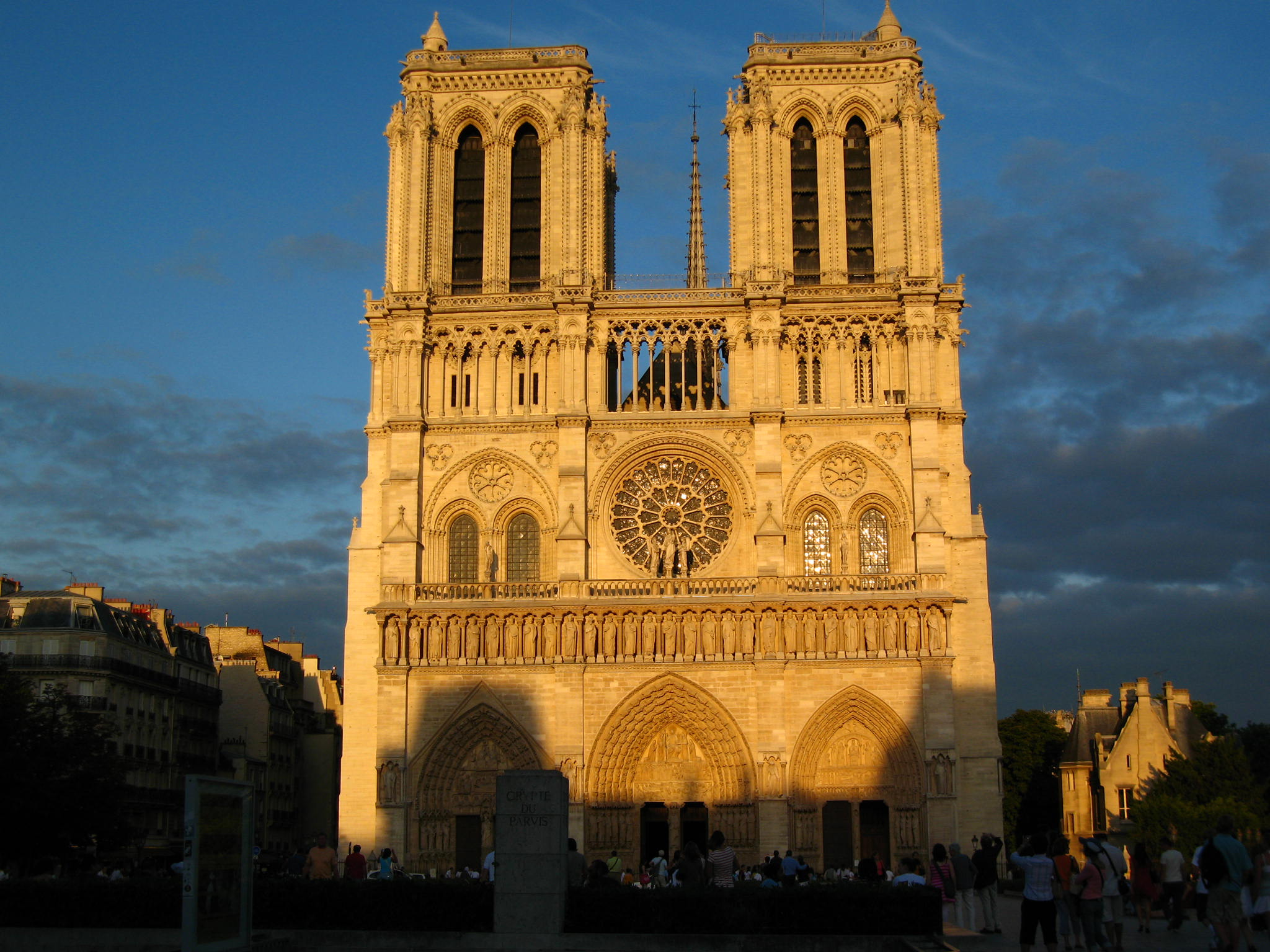 Cathedral Notre-Dame de Paris, west facade